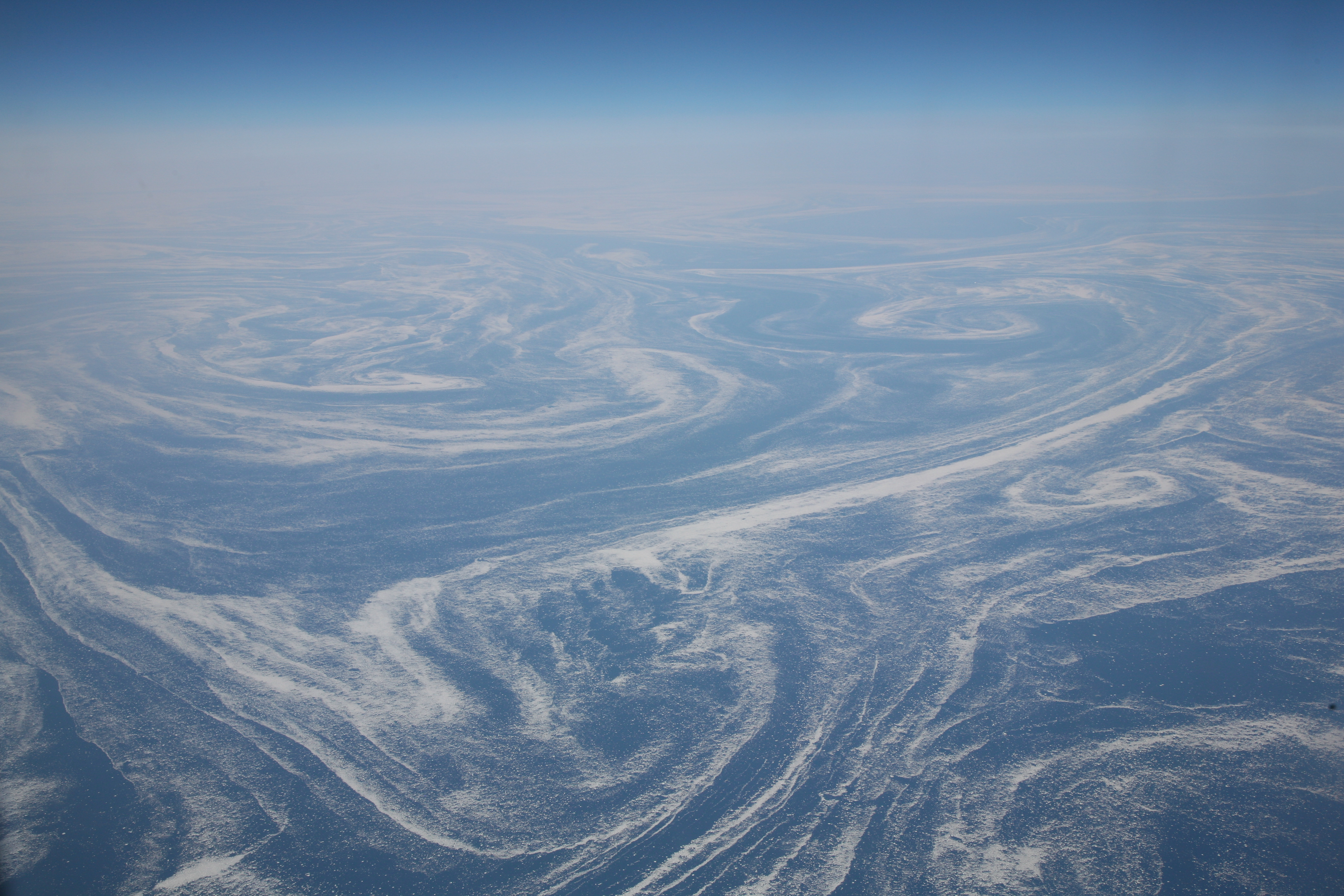 View of the Labrador Current, eight transatlantic flight minutes (130km) east of Belle Isle, taken on a flight from London to Chicago